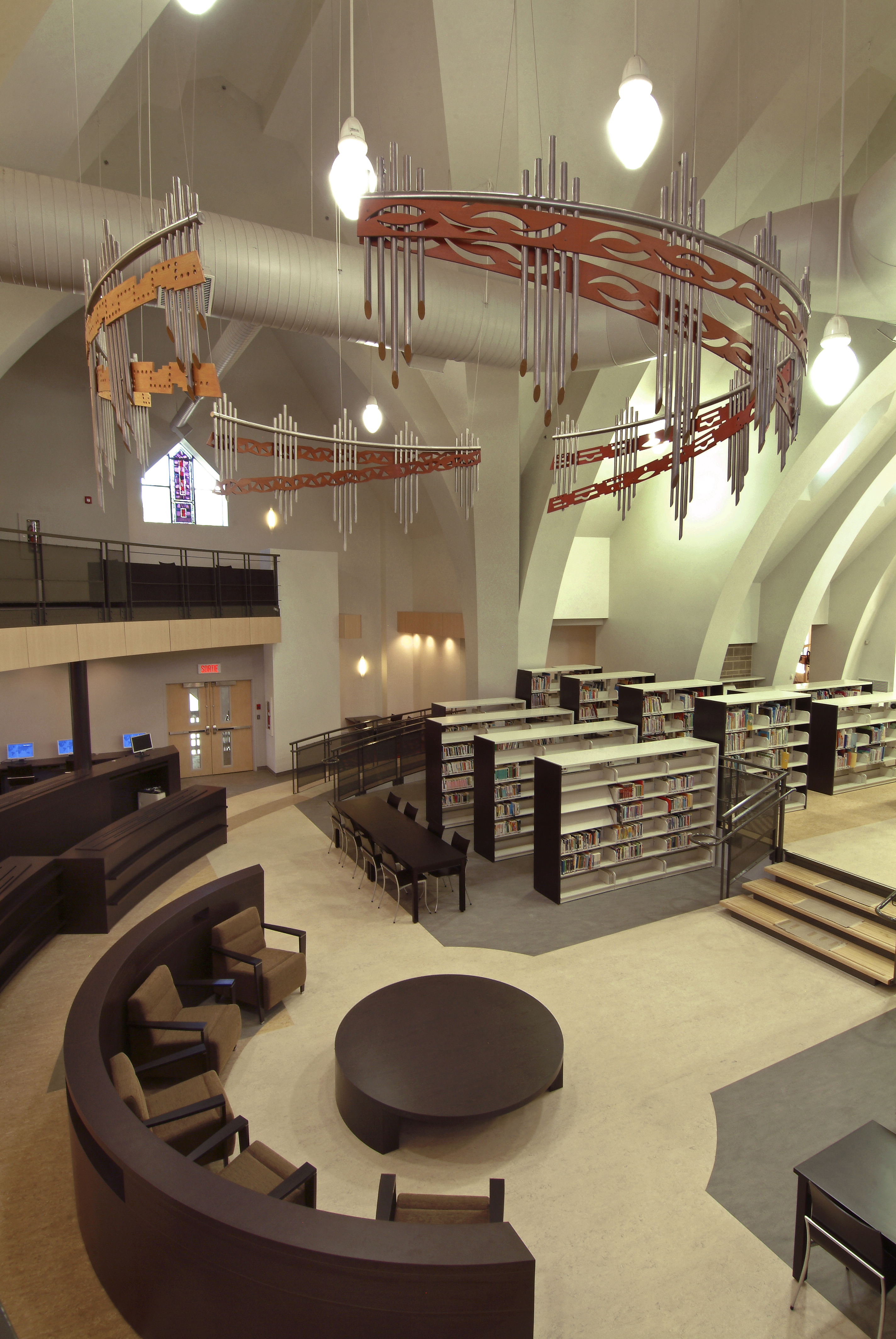 Artist Joëlle Morosoli's Work